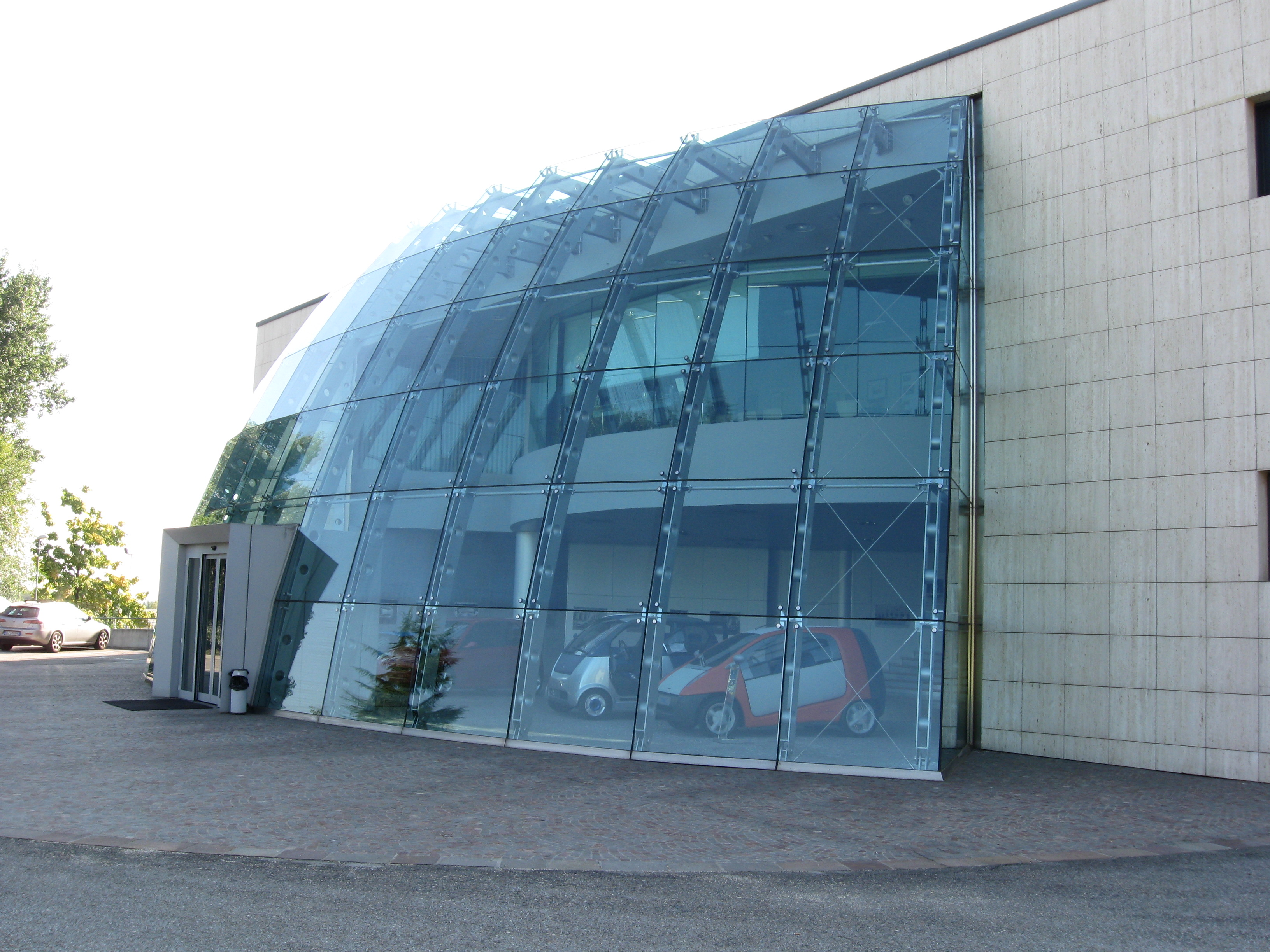 Pininfarina Design Center exterior